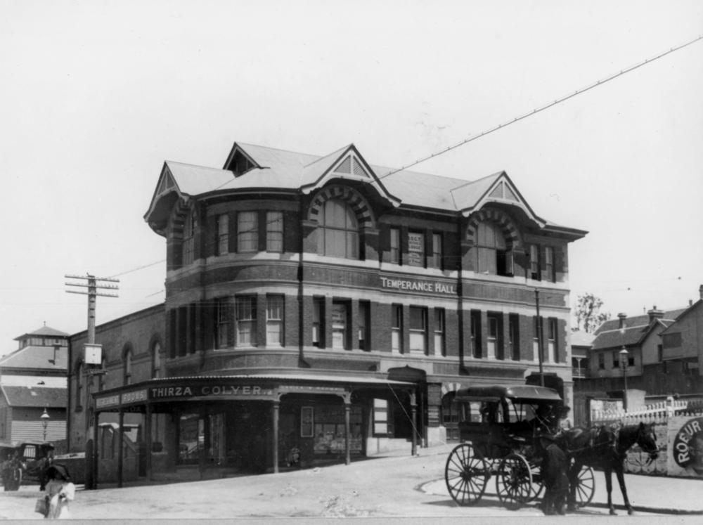 Temperance Hall and the Colyer Refreshment Rooms on the corner of Ann Street and Edward Streets The Temperance Hall in Brisbane was built in 1900. (Description supplied with photograph.).